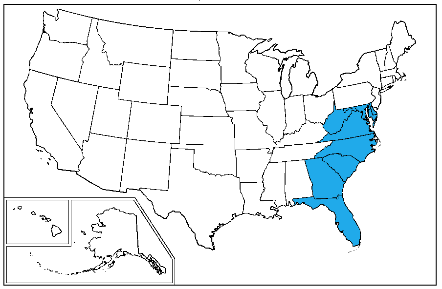 A map of the United States Census Bureau Region 3, Division 5, "South Atlantic", consisting of the states of Delaware, Maryland, Virginia, West Virginia, North Carolina, South Carolina, Georgia and the District of Columbia